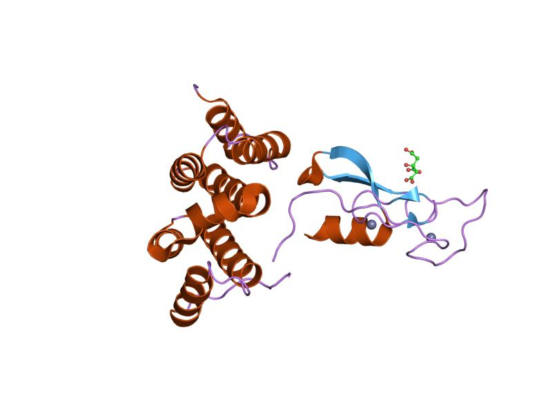 Cartoon representation of the molecular structure of protein registered with 1dvp code.